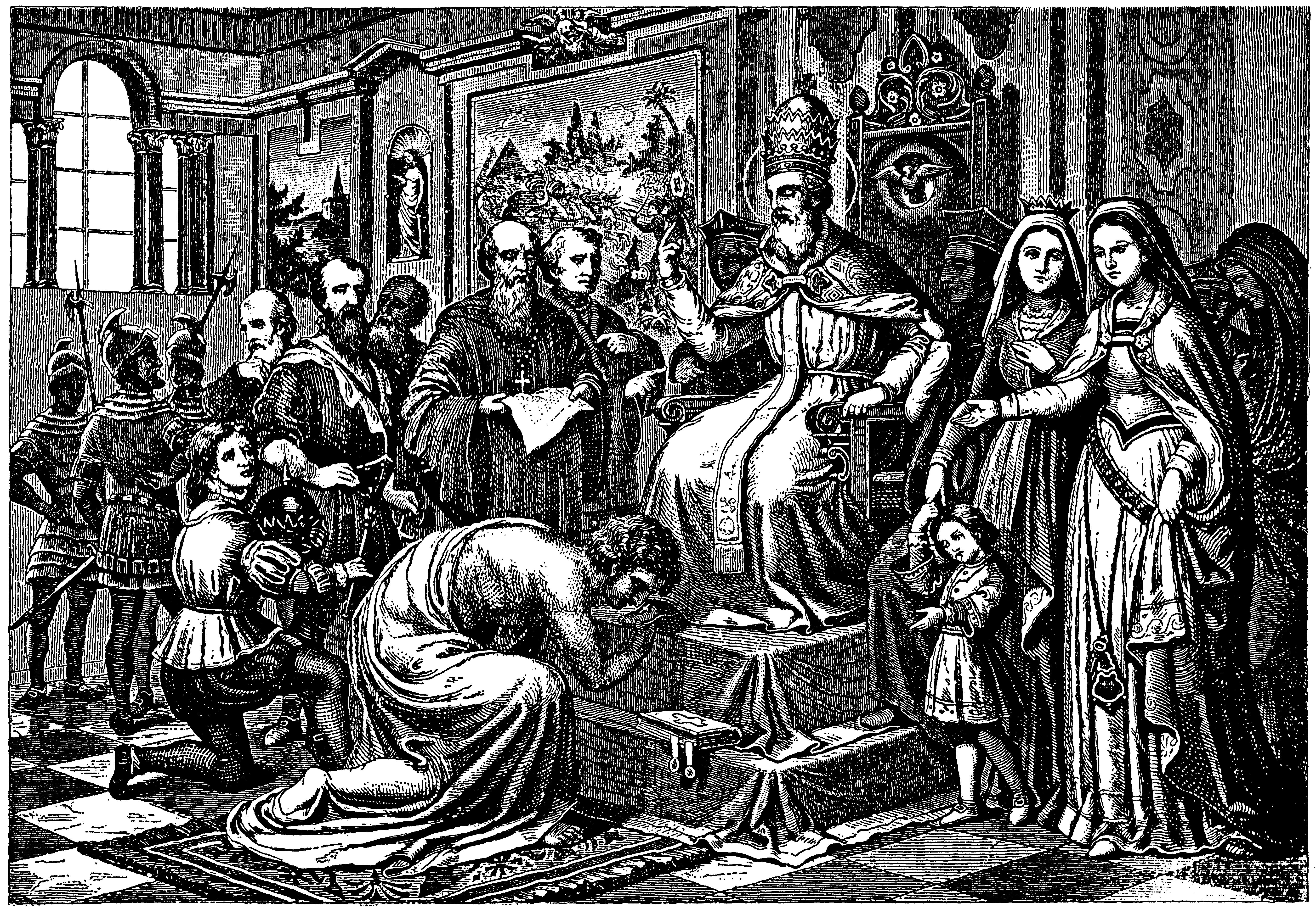 Emperor Heinrich IV before Pope Gregory VII in Canossa